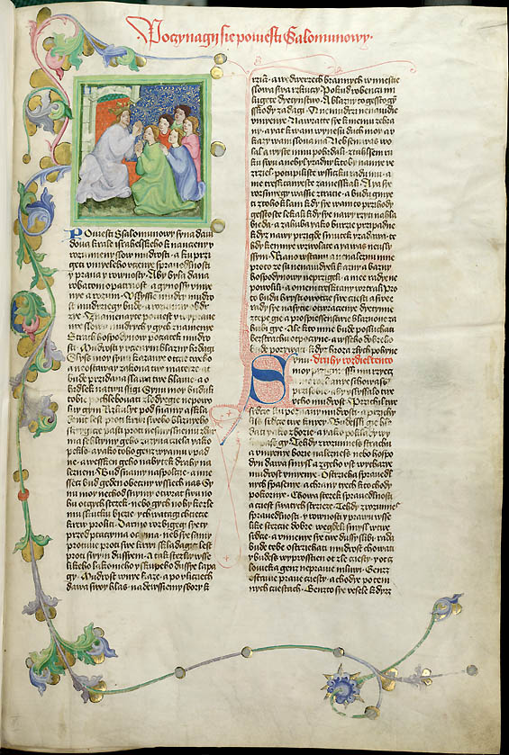 Bible olomoucká, II. díl, sign. M III 1/II, folio 0001r, titulní strana druhého dílu.